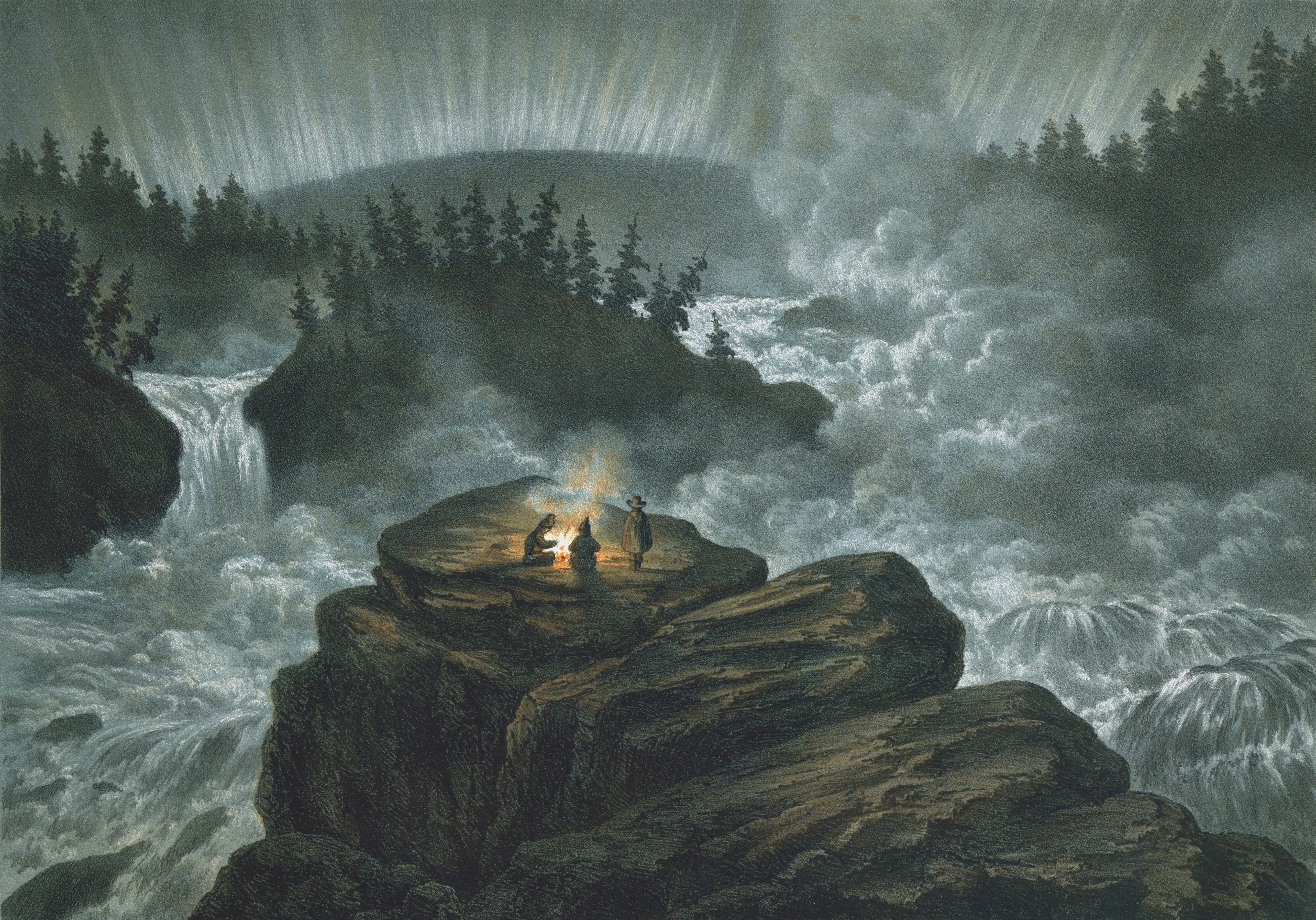 This =chromolithograph from the year 1856 shows the waterfall Harsprånget in the polar night with the aurora borealis. The waterfall Harsprånget (former name: Njommelsaska) was the largest waterfall of the Swedish Lule River. Today there is the largest hydroelectric plant in Sweden Stora harsprånget.